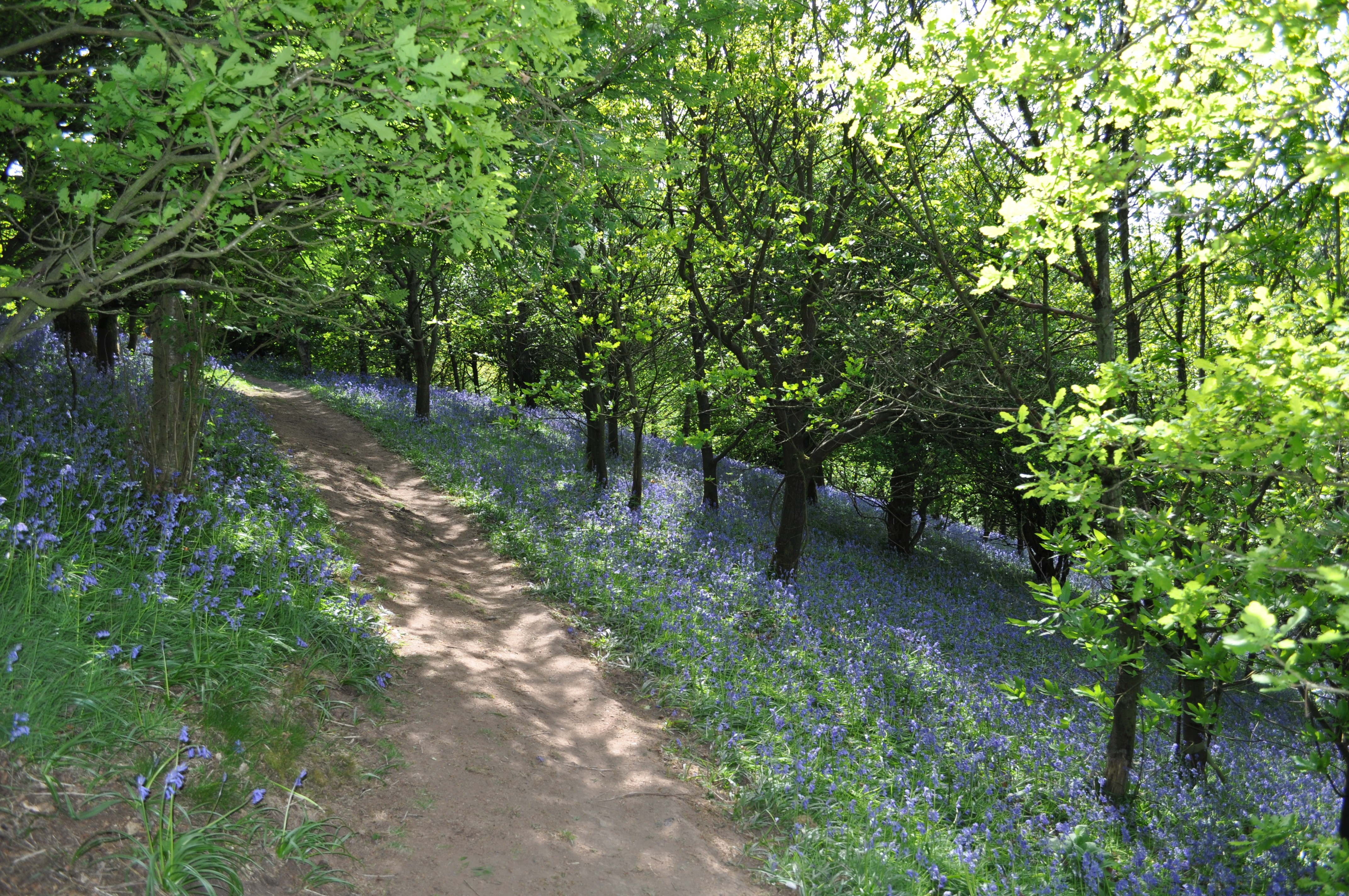 View of Waseley Hills Country Park, northern Worcesteshire, England